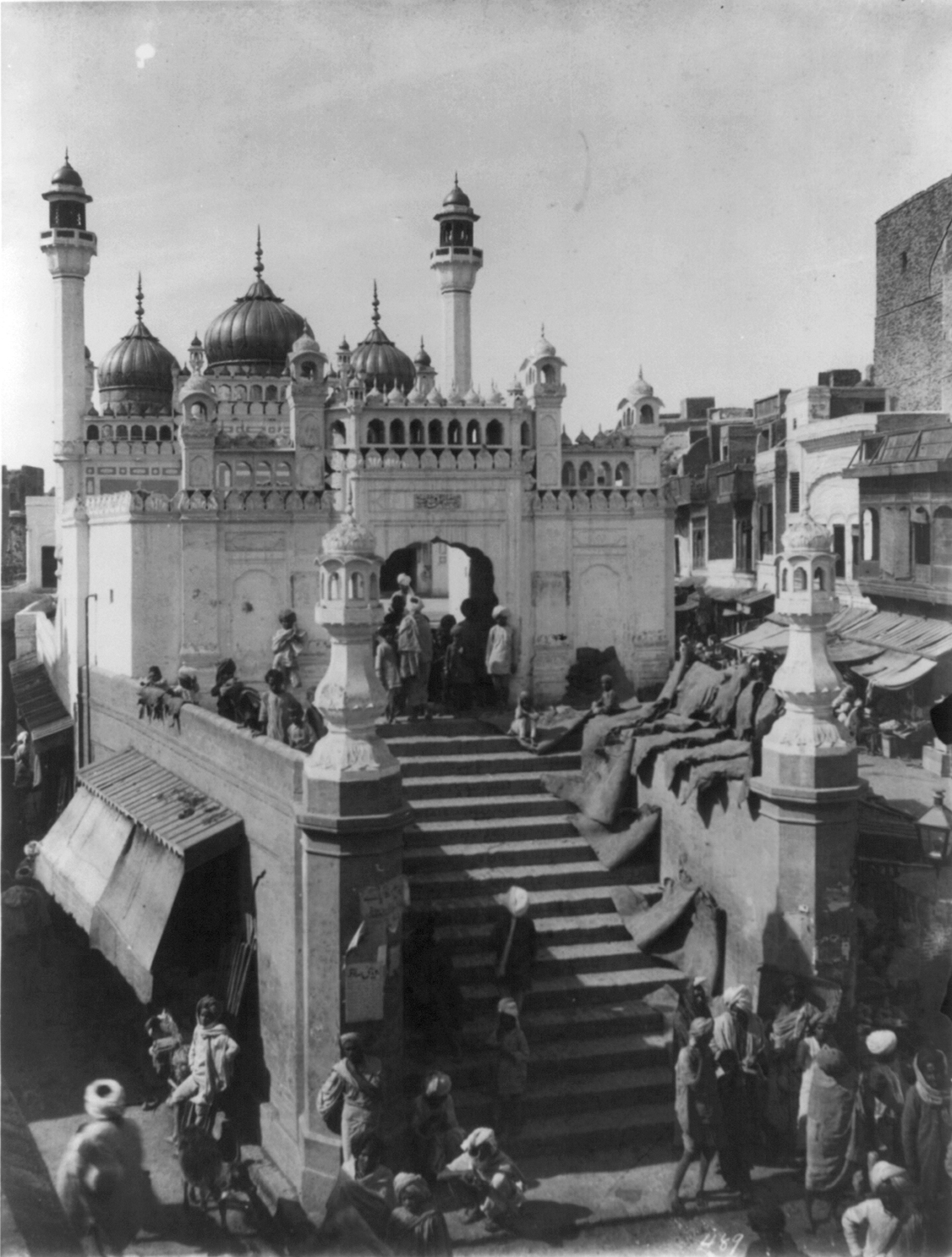 Golden Mosque Lahore in 1895